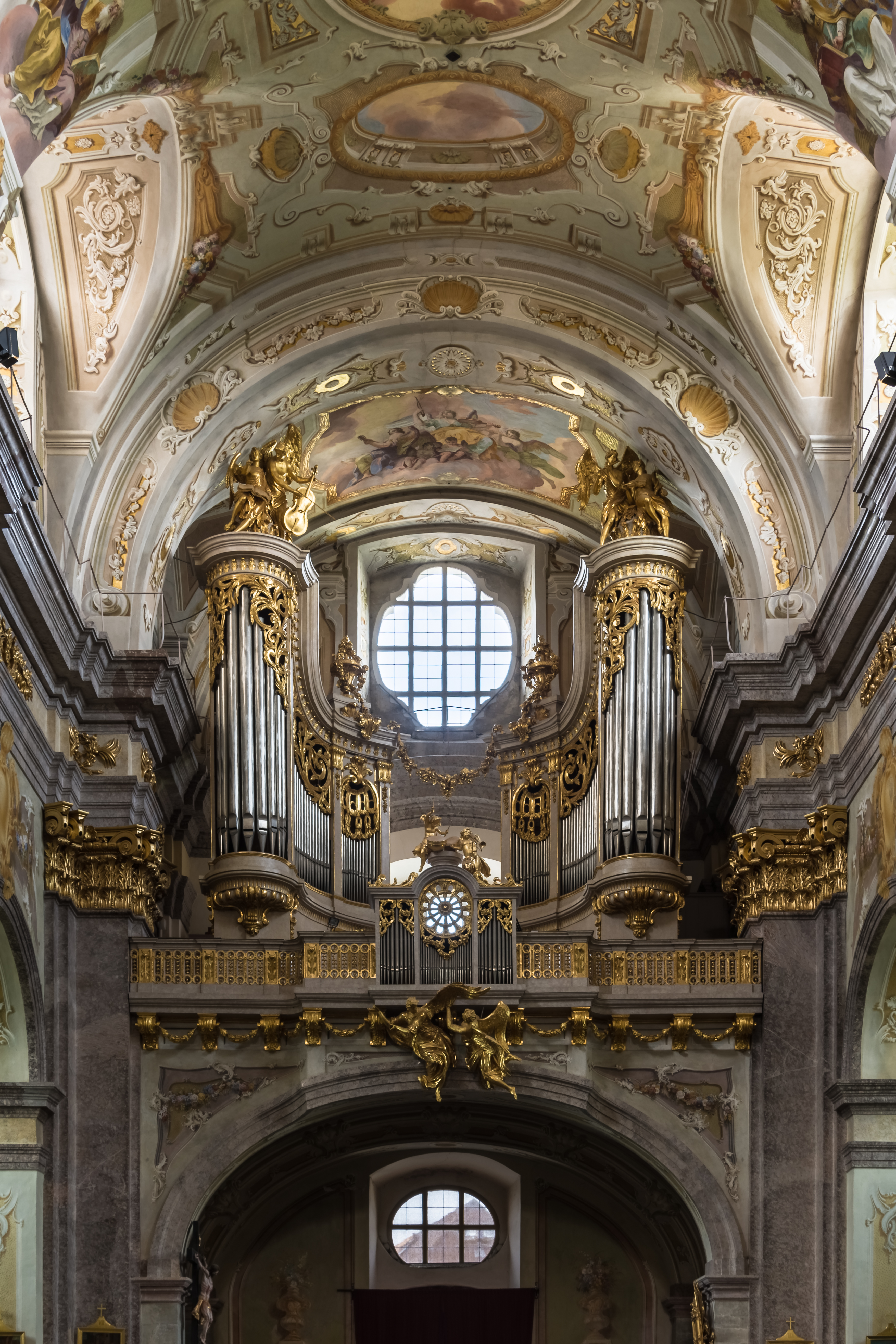 Organ of Sonntagberg Basilica, Lower Austria. Franz Xaver Christoph, II/25, built 1774–1776.